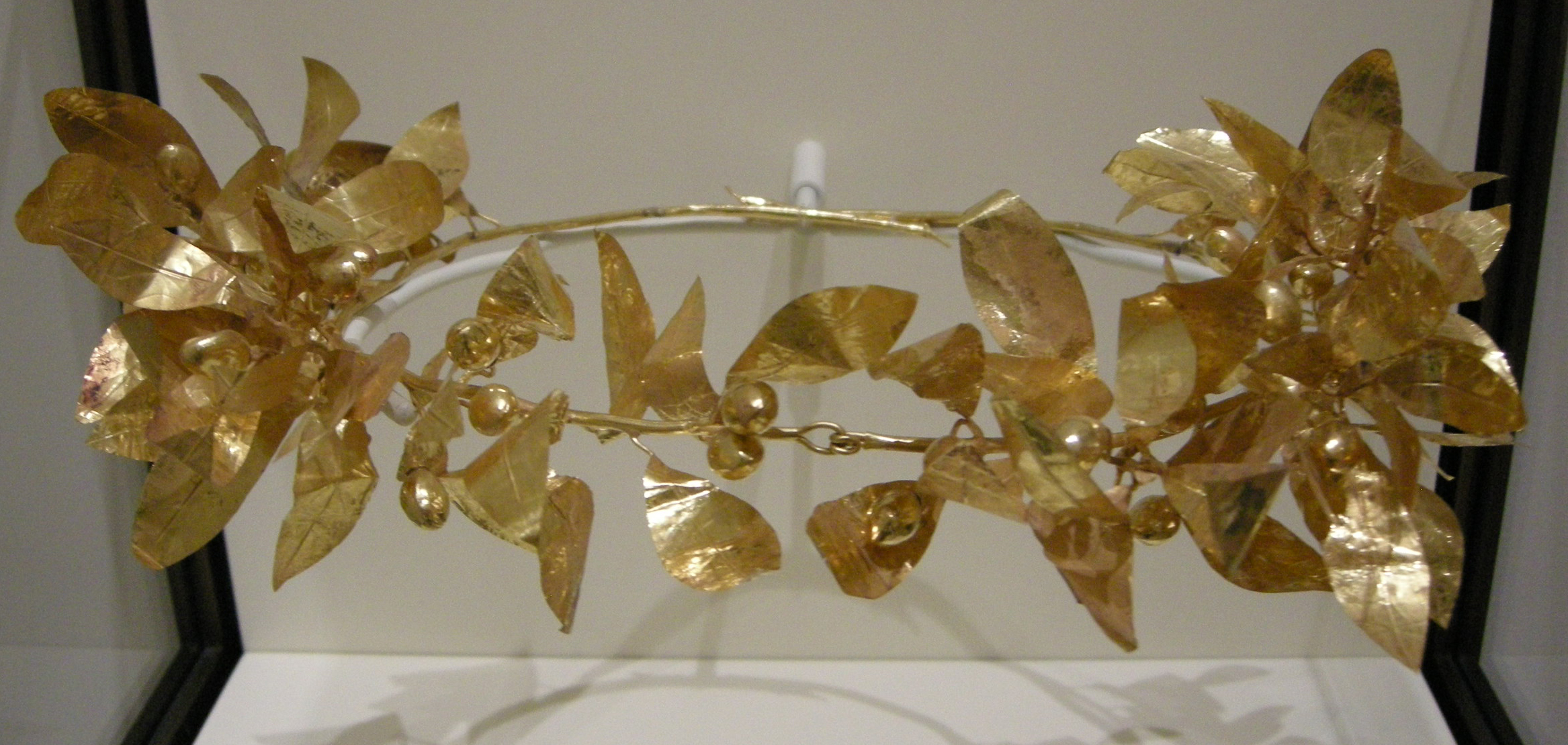 Wreath (Greek, 300-100 BC.) Gold.